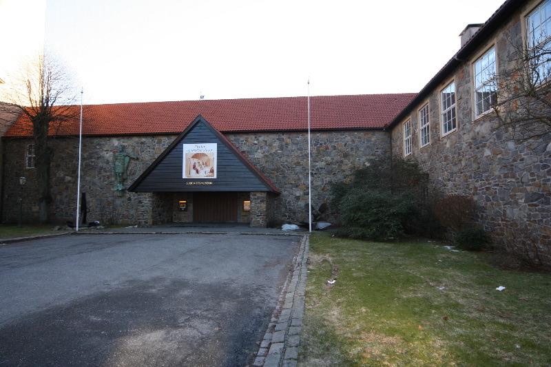 Bergen Maritime Museum